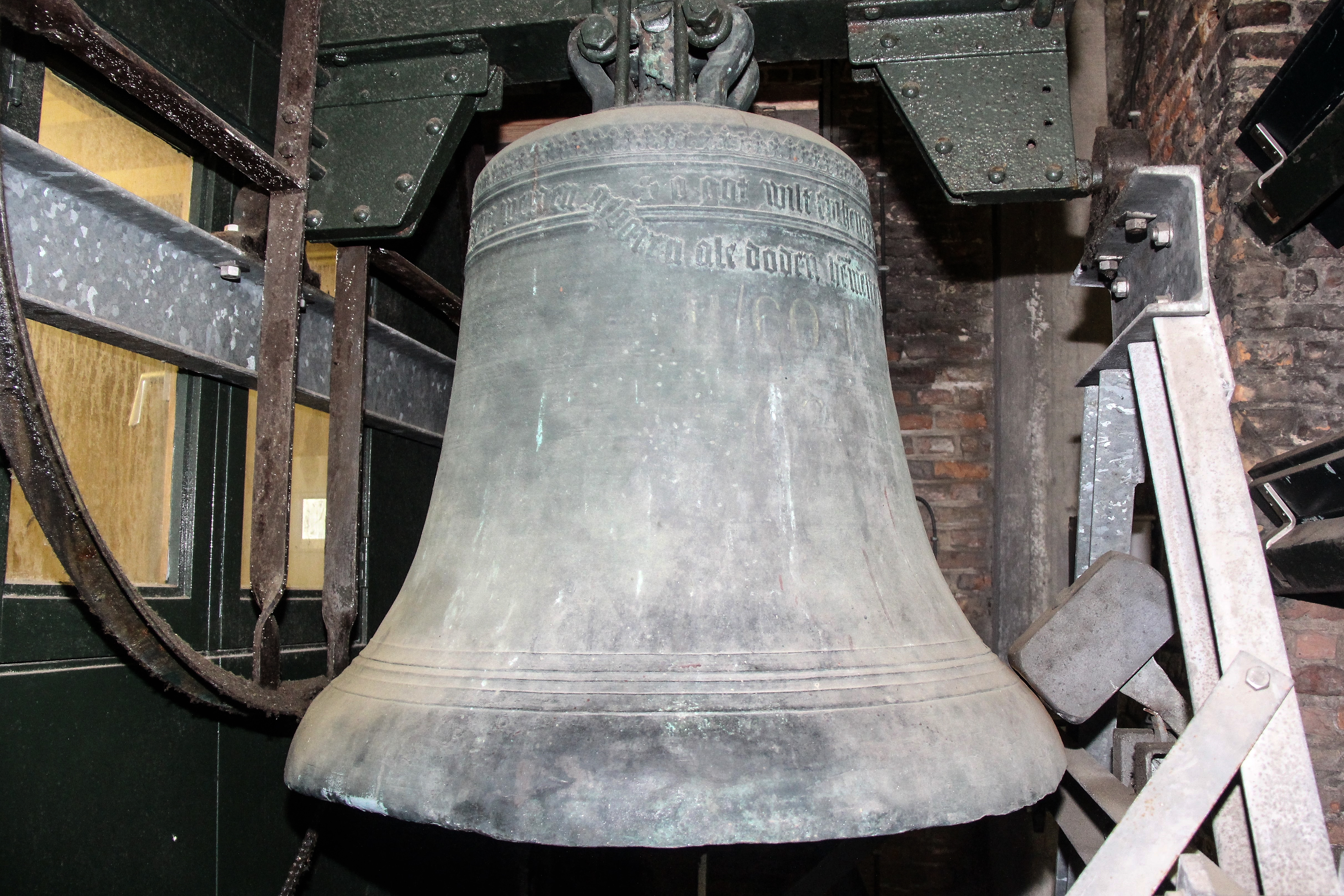 Large Church Bell village church Spijkenisse (1481)